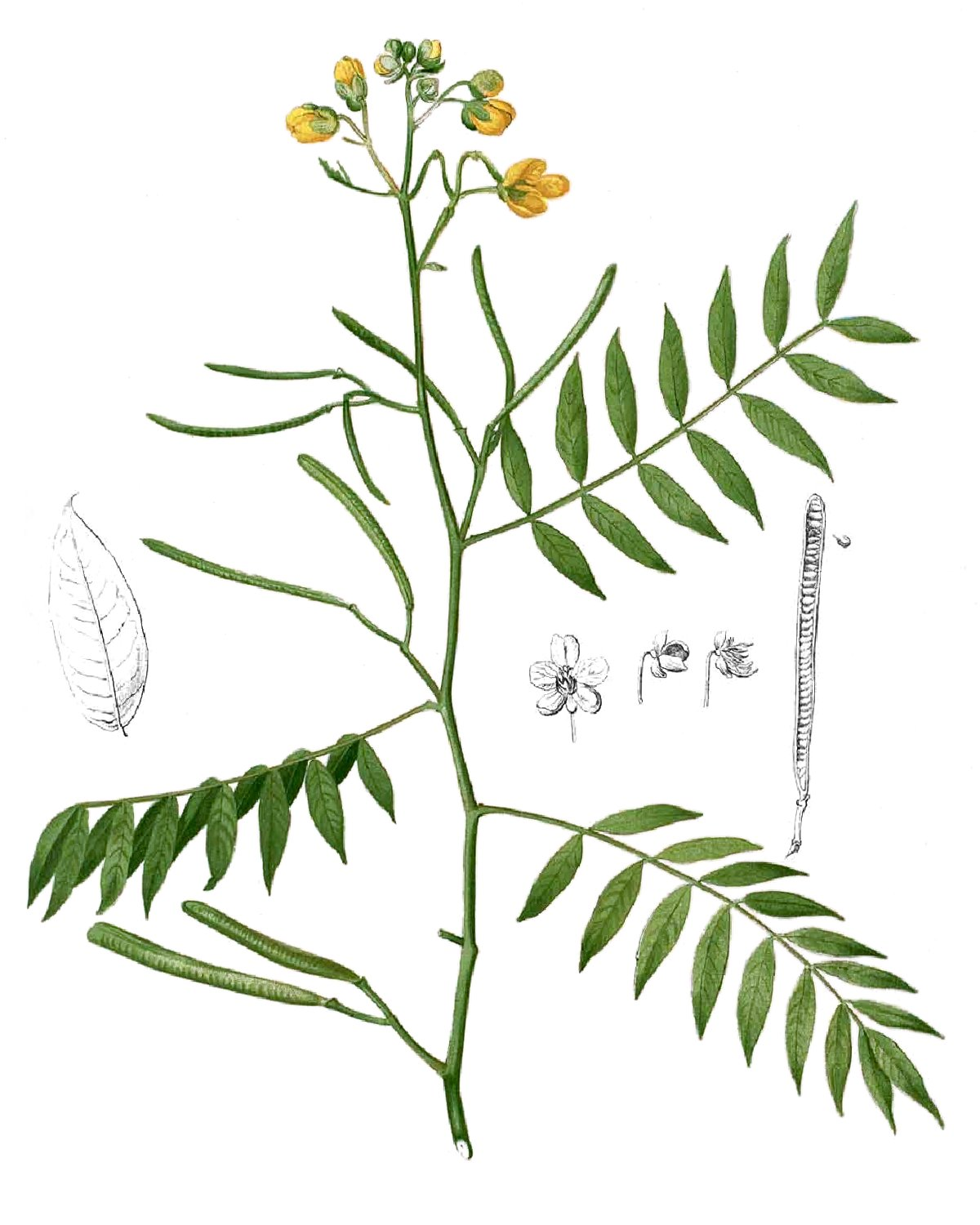 Plate from book